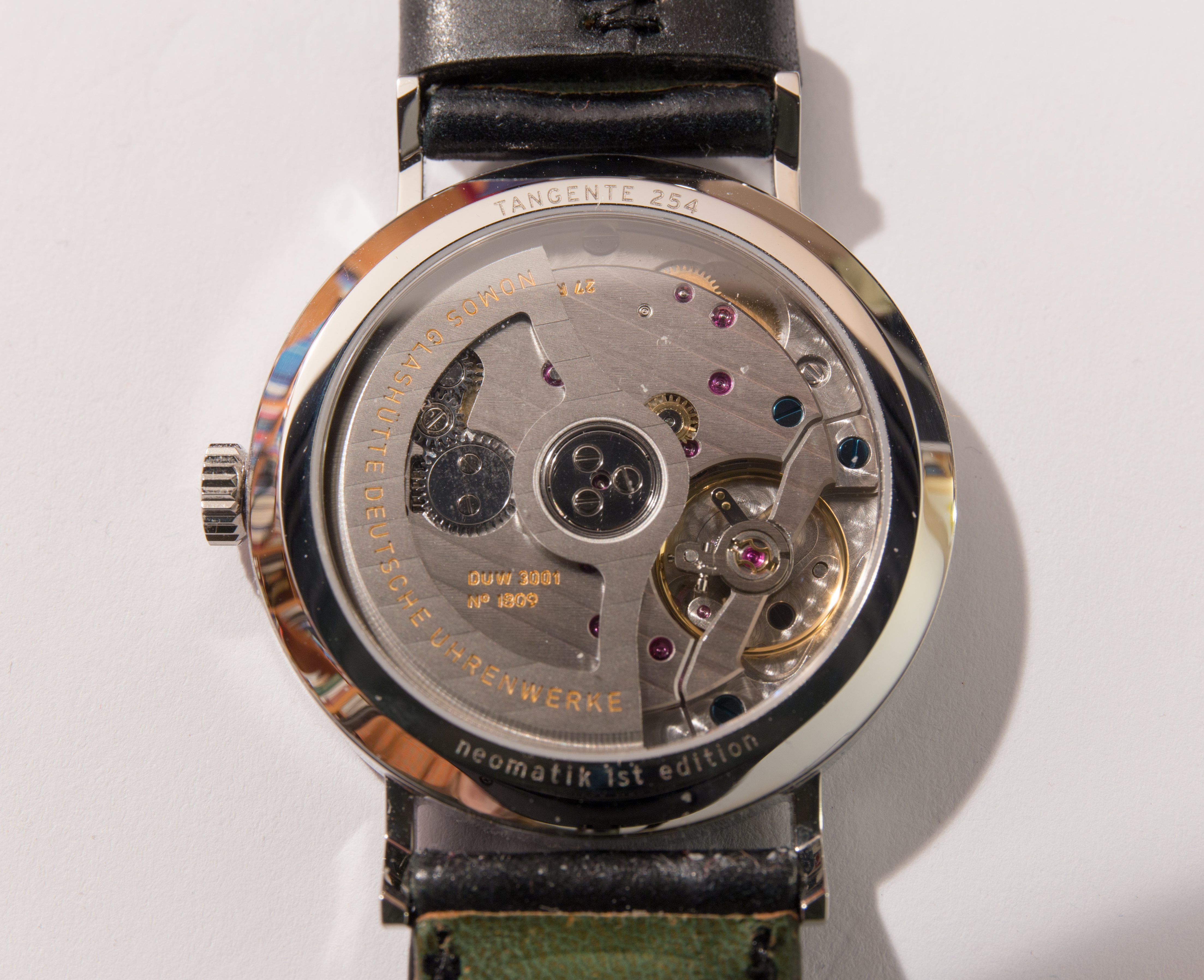 neomatik, Nomos, Tangente, Uhrwerk, Automatikkaliber 3001